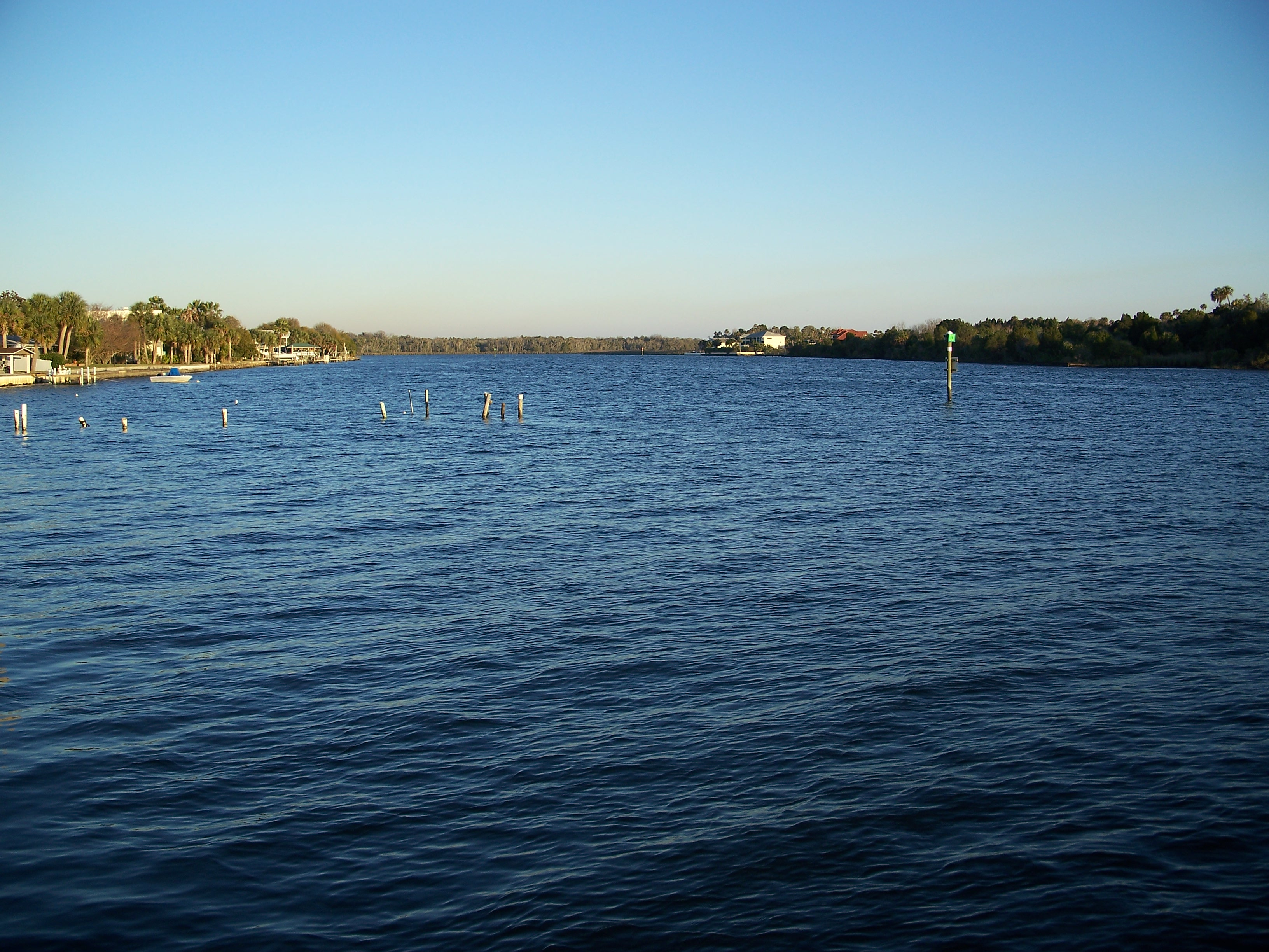 Crystal River, in the Crystal River Archaeological State Park, in Crystal River, Florida